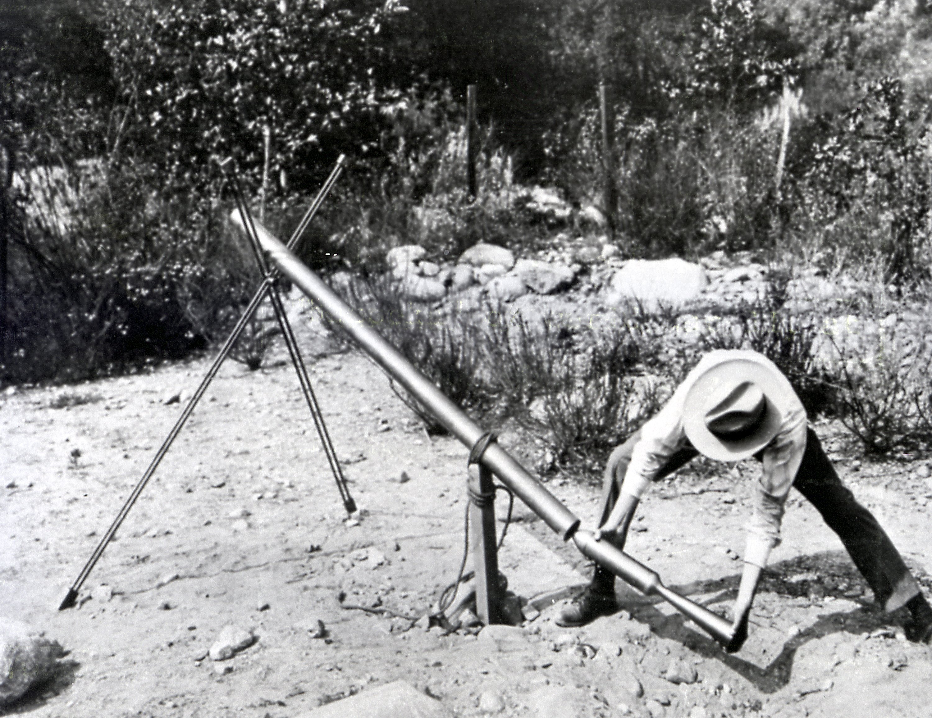 Dr. Robert H. Goddard loading a 1918 version of the Bazooka of World War II.